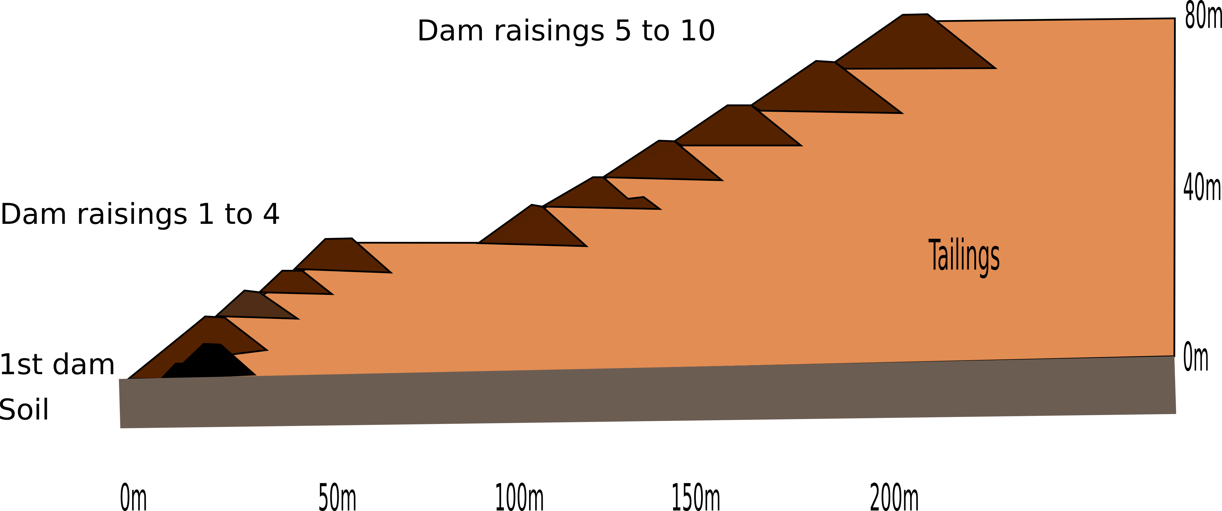 Brumadinho dam "Barragem I". Cross section through the broken dam from the west to the east. The dam is based on soil, not on solid rock. The first dam (black) had been build 1976 with coarse rubbel from mining. In the following decades the dam had been hightend several times. Dam raisings 1 to 4 had been done with compacted soil, each additional small damm had contributed 5 - 8 m in hight. In later years the dam raisings had been done with dams build out of dried tailings. The final dam reached a hight of 86 m.